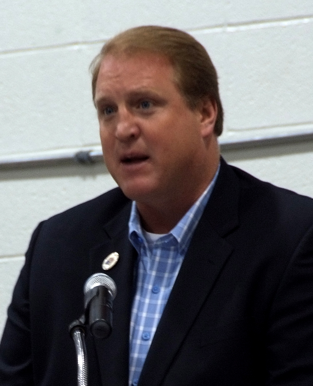 Boone, IA National Guard Co. B 248th Homecoming, Boone, IA DMACC Campus. Iowa Governor, the Honorable Chet Culver welcoming home the troops.